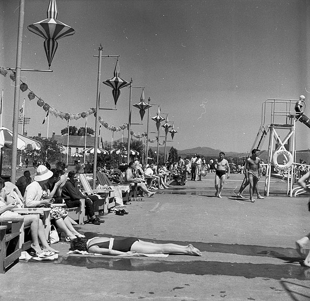 Teitl Saesneg/English title: Butlins holiday camp in Pwllheli. Ffotograffydd/Photographer: Geoff Charles (1909-2002) Dyddiad/Date: 06/07/1961 Cyfrwng/Medium: Negydd ffilm / Film negative Cyfeiriad/Reference: (gch24373) Rhif cofnod / Record no.: 3470977 Rhagor o wybodaeth am gasgliad Geoff Charles yn Llyfrgell Genedlaethol Cymru More information about the Geoff Charles Collection at the National Library of Wales Mae ffotograffau Geoff Charles hefyd yn rhan o Broject Europeana Libraries Geoff Charles' photographs also form part of the Europeana Libraries Project